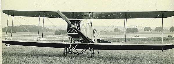 Bristol Gordon England G.E. 2 No.103, labelled 12 for the 1912 Larkhill trials